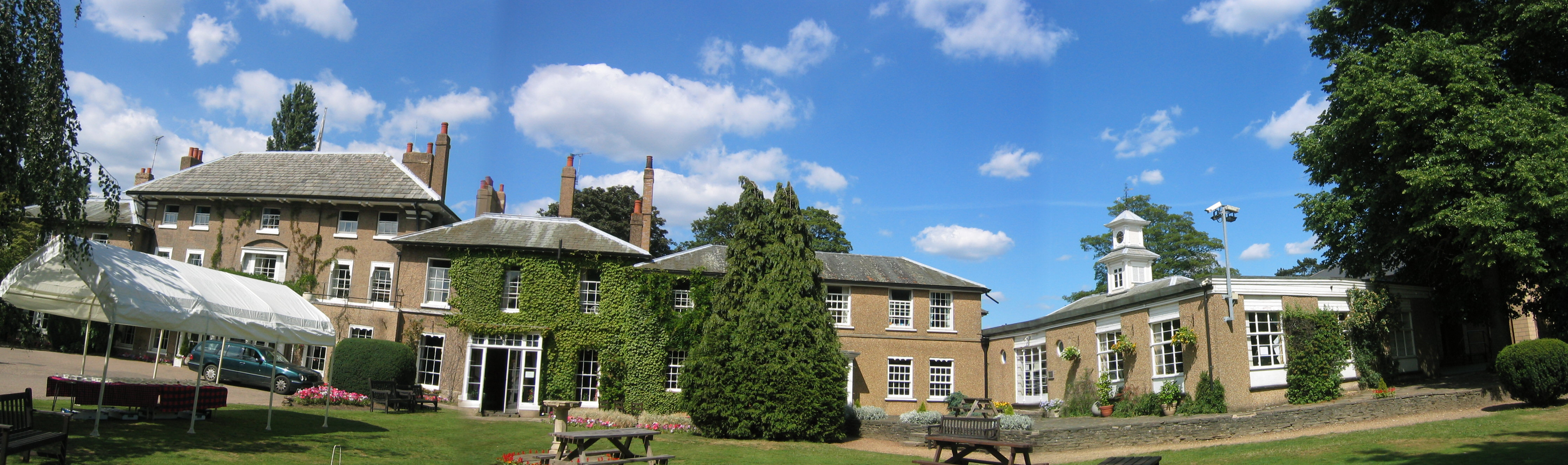 Exterior front of Edge Grove taken June 2004 Photo taken by and contributed to Wikipedia by Gavin Wilson